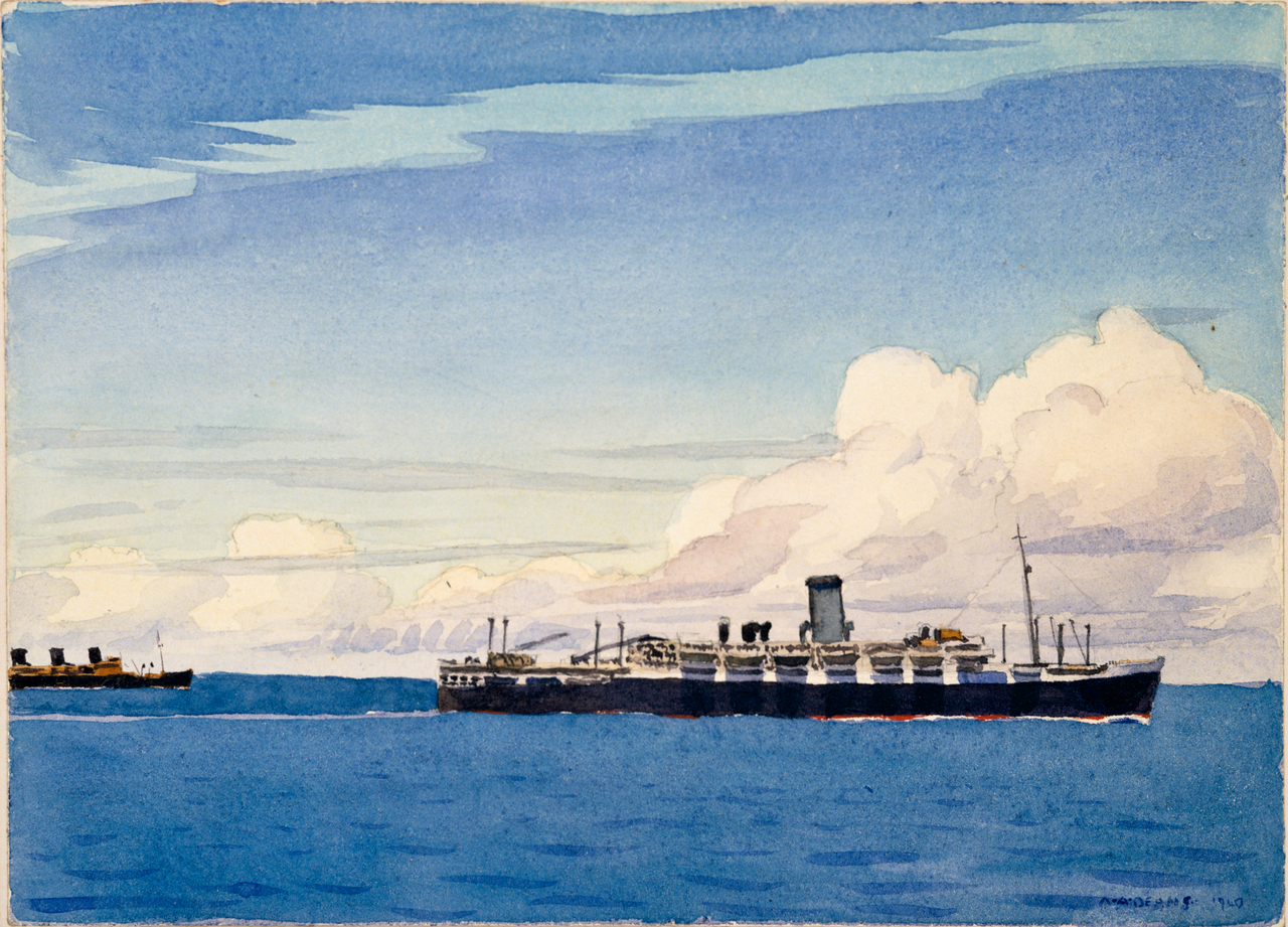 Watercolour by Austen Deans entitled "3 Days Out from New Zealand, 1940"